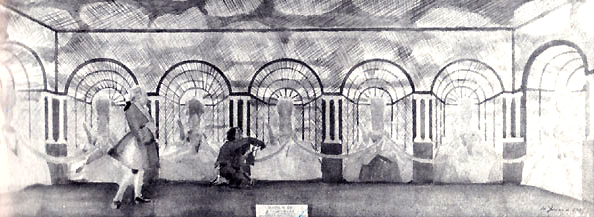 Nikolai Ulyanov's design for the Theatre-Studio's (Studio on Povarskaya Street) production of Hauptmann's Schluck and Jau in 1905, directed by Vsevolod Meyerhold.